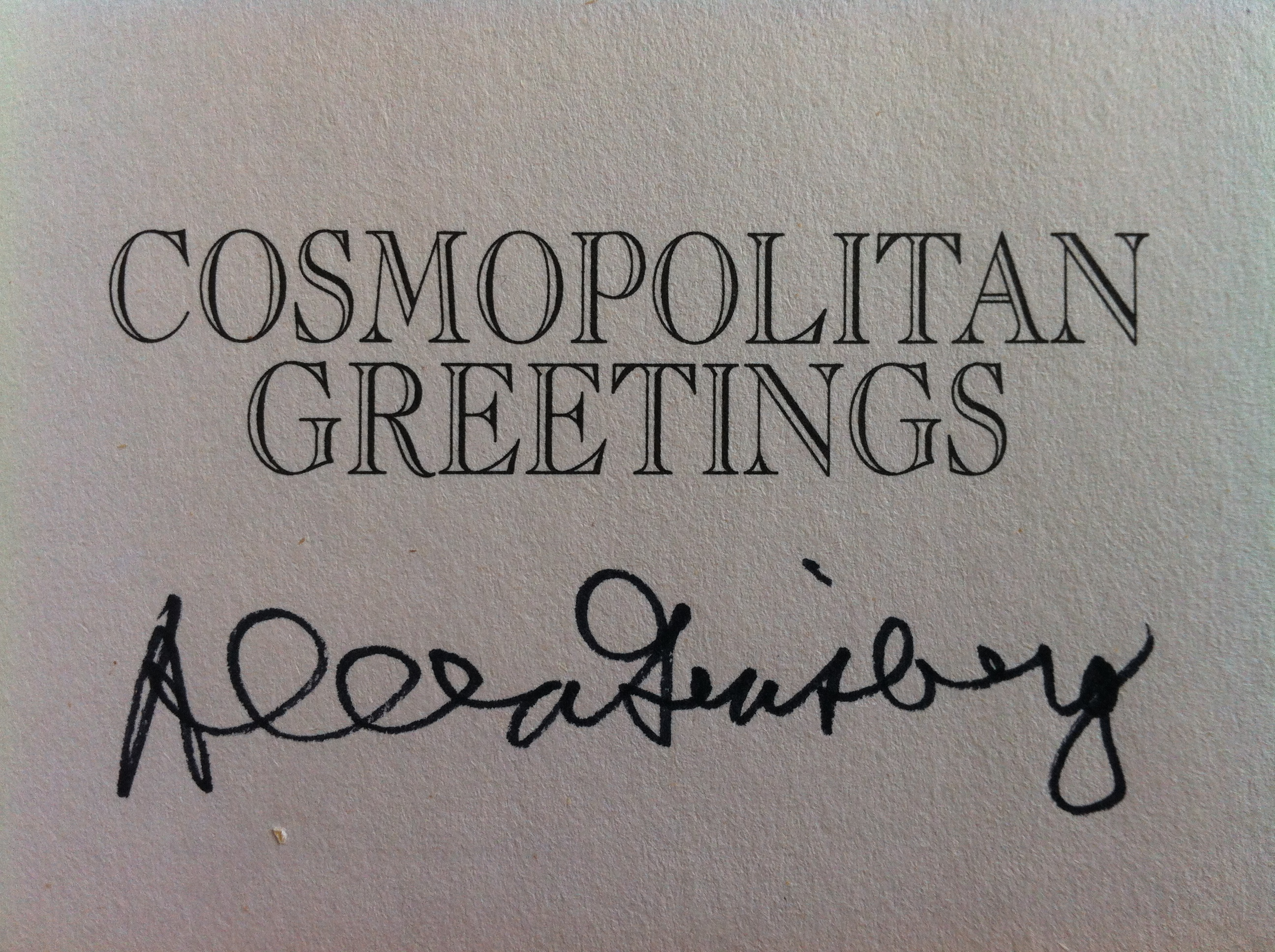 Allen Ginsberg - Cosmopolitan Greetings